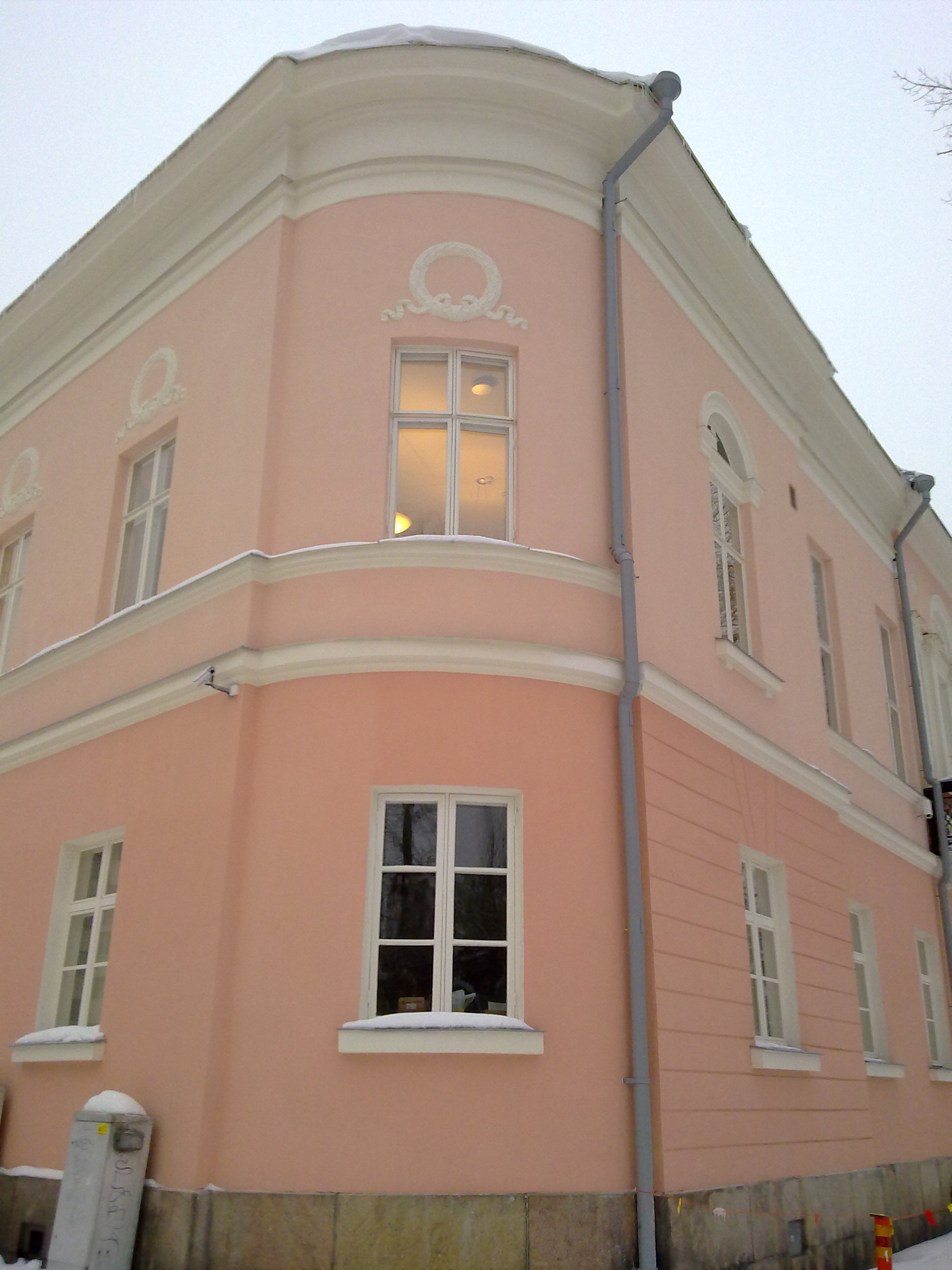 Valtakunnanvoudinvirasto is a department of Ministry of Justice of Finland in charge of foreclosure and distraint offices. It is located in Turku.